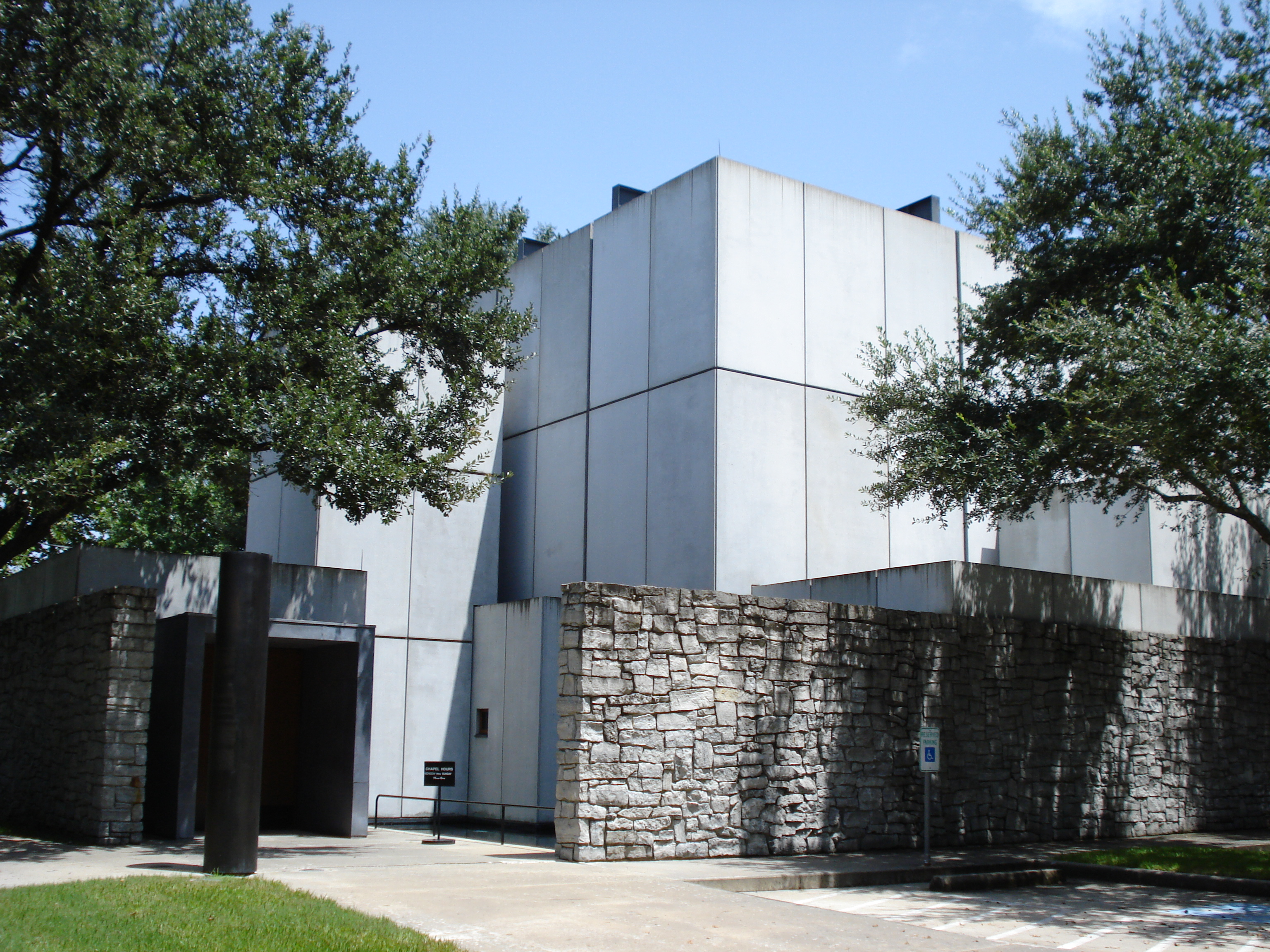 Photo by Argos'Dad depicting the exterior of the Byzantine Fresco Chapel Museum in Houston, Texas.